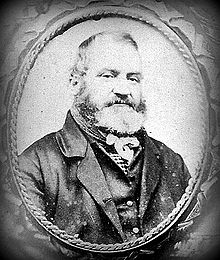 Studio portrait of British sea captain, mid-19th century. Captain John Parker of Hull.